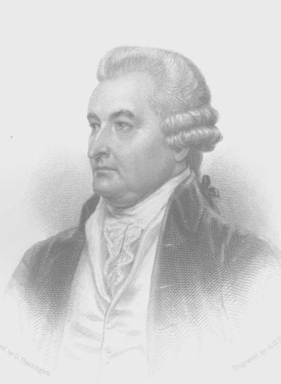 Subject: Benjamin Huntington Artist: Daniel Huntington (1816-1906), grandson of Benjamin Huntington Published by Huntington Family Association Originally located in 1863 Huntington Family Memoir